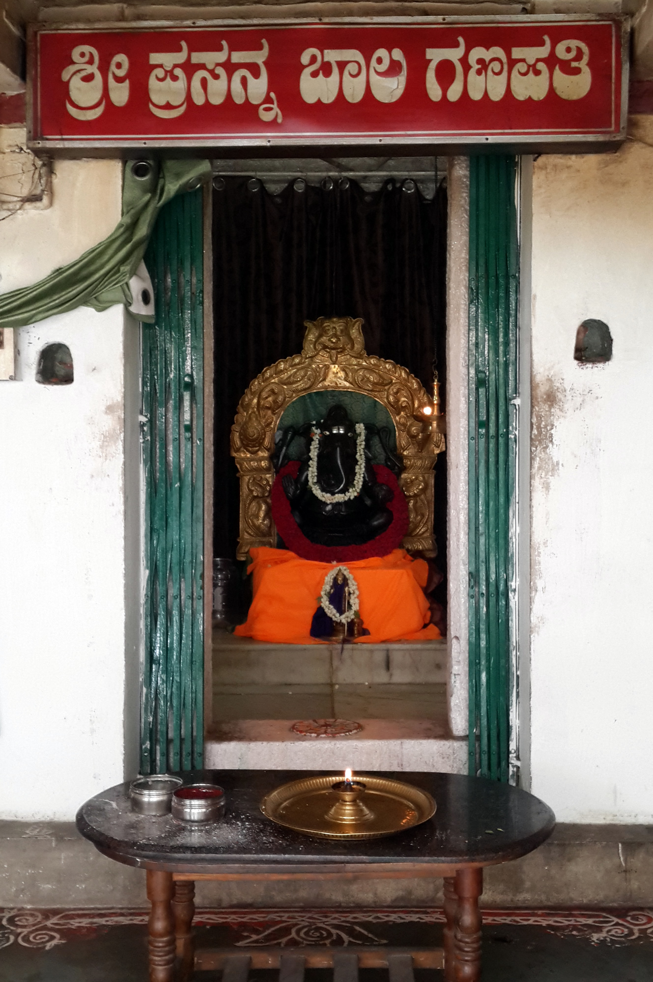 Nandi Tirtha Temple Malleswaram Bangalore